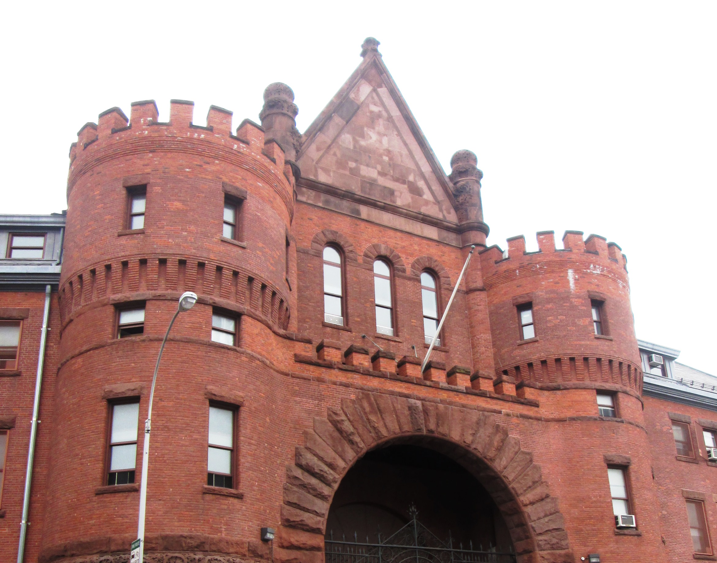 The 23rd Regiment Armory at 1322 Bedford Avenue between Atlantic Avenue and Pacific Street in the Crown Heights neighborhood of Brooklyn, New York City was built for the National Guard in 1891-95 and was designed by Fowler & Hough, local Brooklyn architects, and Isaac Perry, the architect for New York State, which financed the construction. (Sources: Guide to NYC Landmarks (4th ed.) and AIA Guide to NYC (5th ed.))